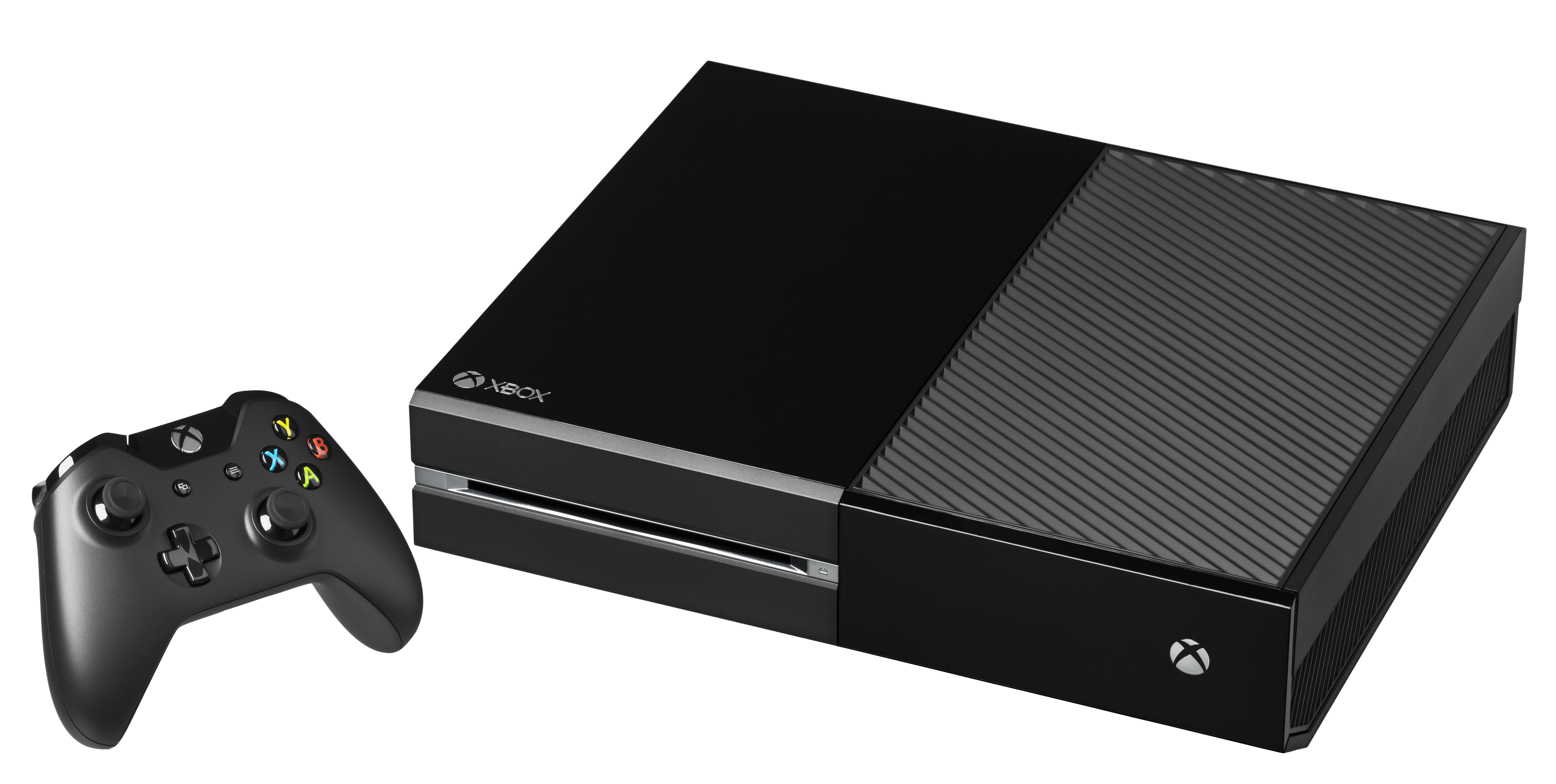 The Xbox One video game console, made by Microsoft and originally released in 2013. It is an eighth-generation system, proceeding the Xbox 360.